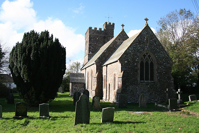 St Rumon's parish church, Romansleigh, Devon, seen from the southeast